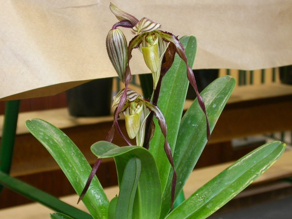 Paphiopedilum